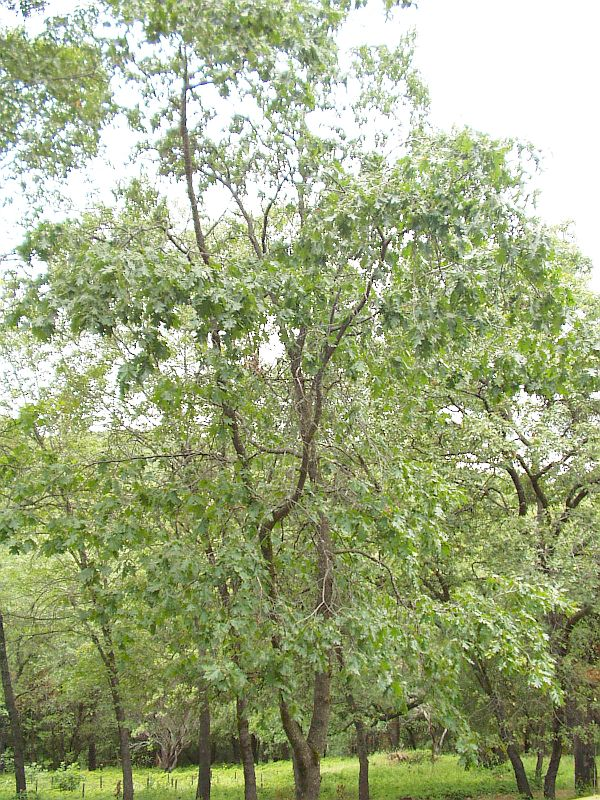 Black oak